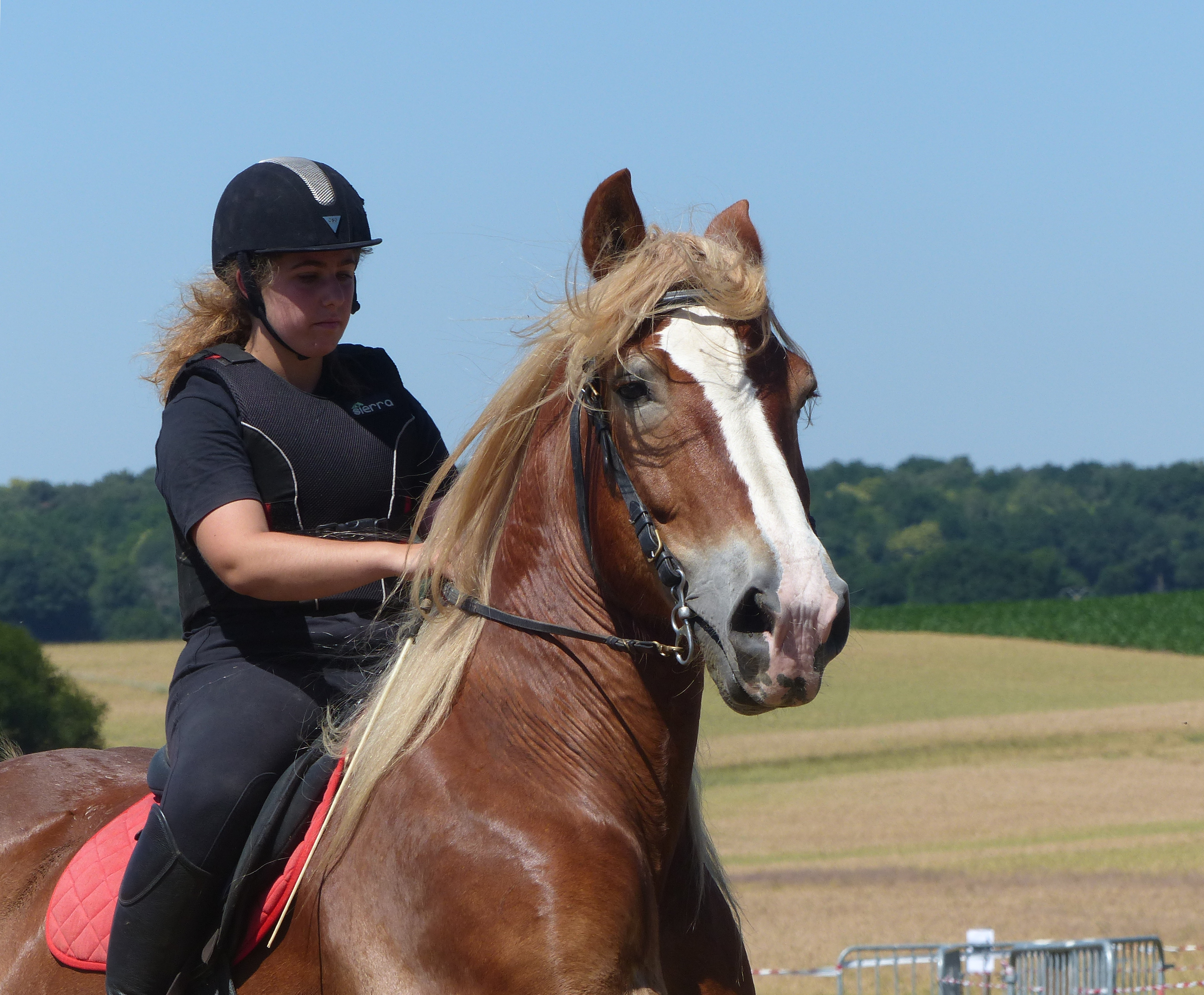 Breton draft horse in riding use, La Chapelle-Gaceline, Morbihan, Bretagne, France